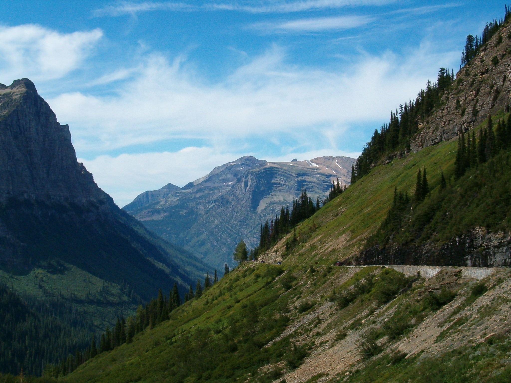 Glacier National Park, Montana